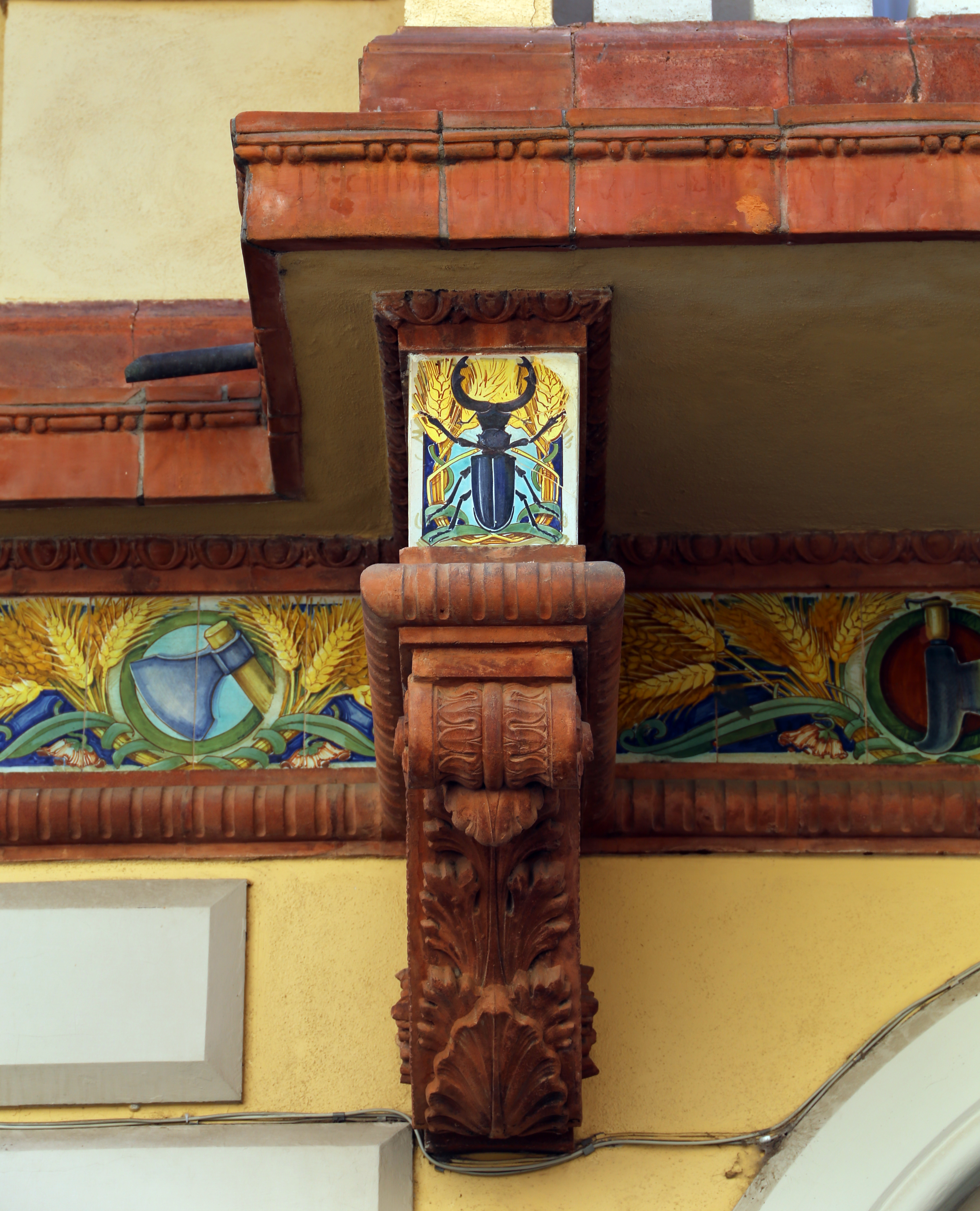 Buildings in Grosseto